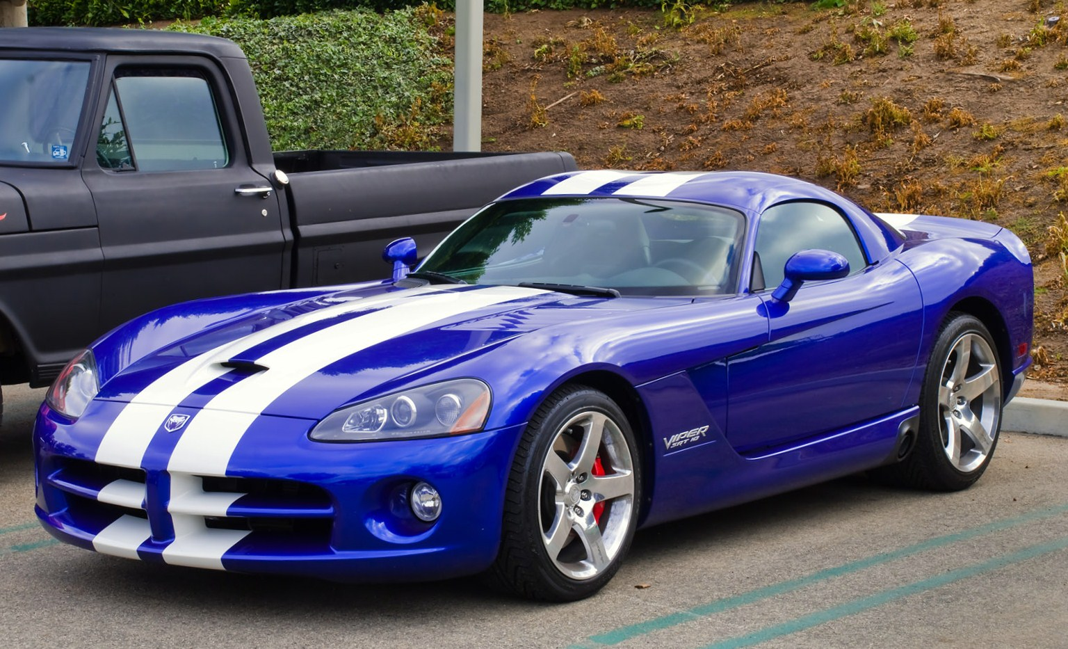 Cars & Coffee - Irvine, CA